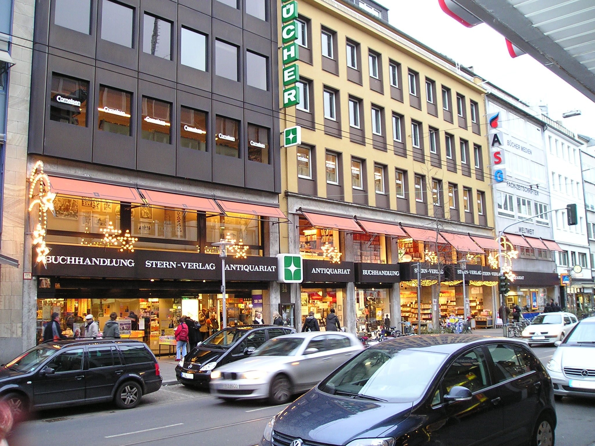 Stern-Verlag, Düsseldorf and ASG center for foreign languages